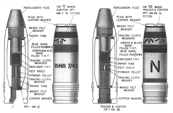 Diagram of High Velocity shell for Vickers QF 2 pounder Mk VIII gun ("pom-pom"), World War II.